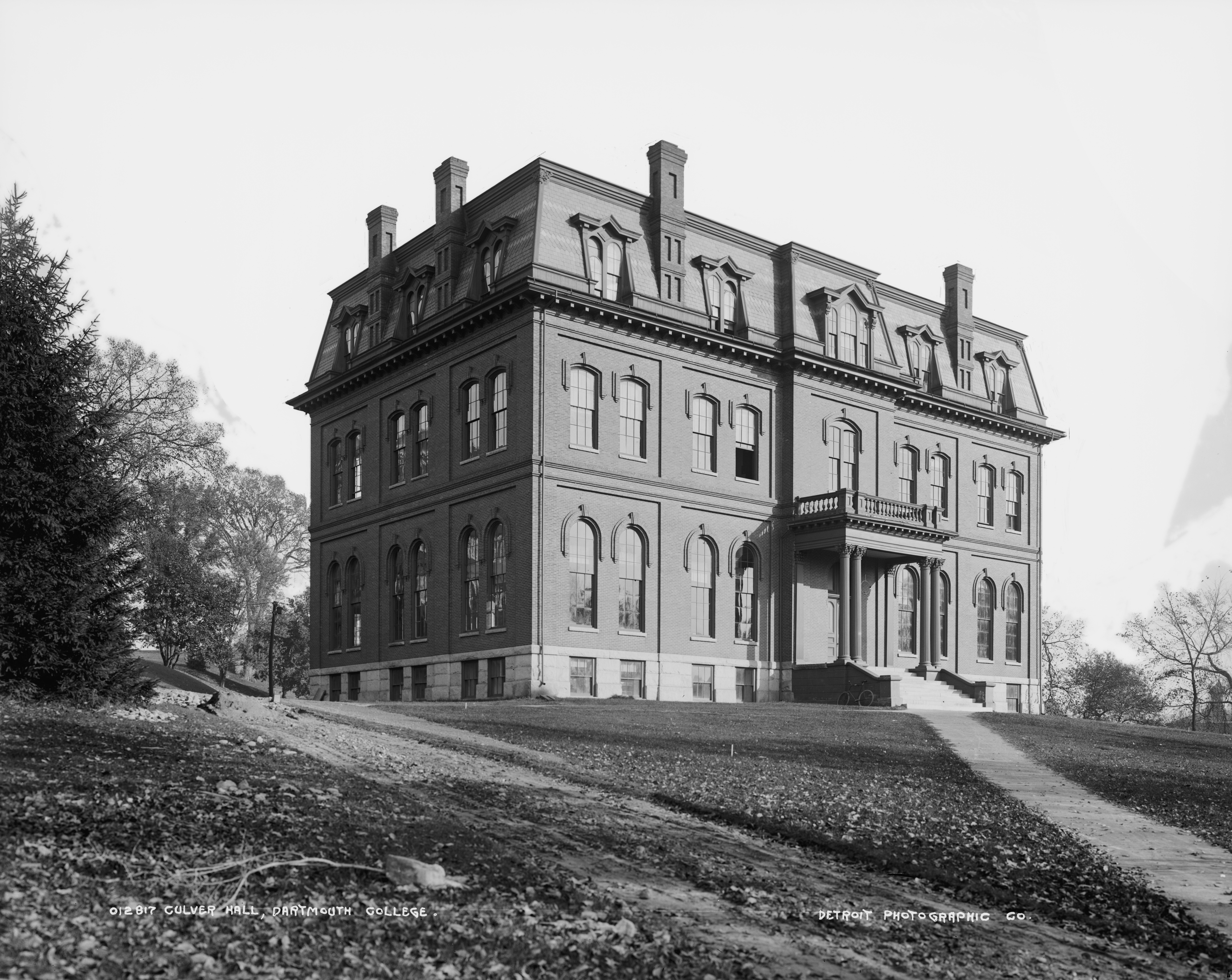 LC-D4-12817. Library of Congress, Prints and Photographs Division, Detroit Publishing Co. Collection.